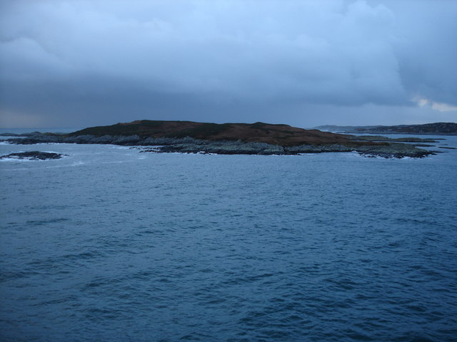 Photo of Eilean Ornsay, an island off the coast of Coll.